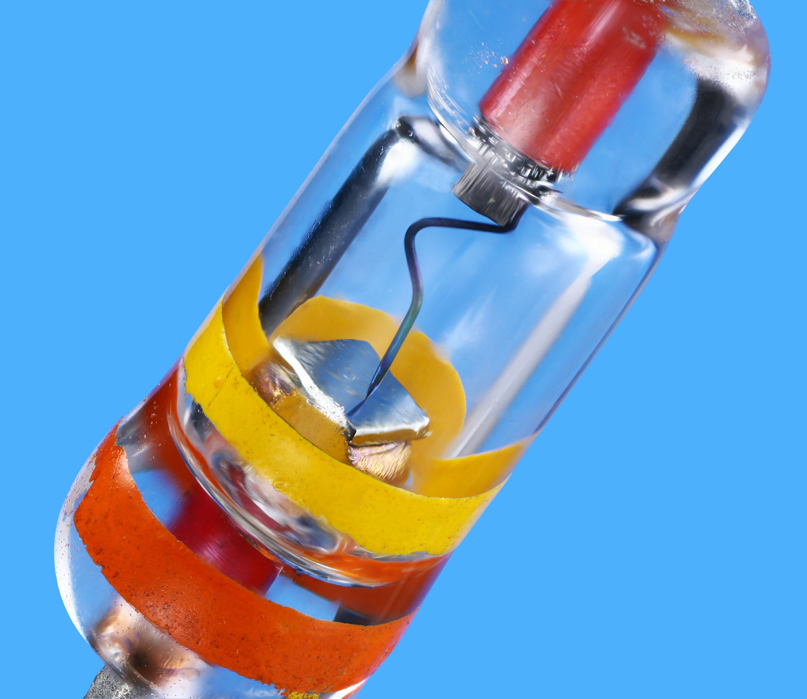 The EFD108 is a point contact diode in a DO-7 type package employing N-form Germanium and gives an efficient and excellent linearity when used in FM detection, AM detection, etc.